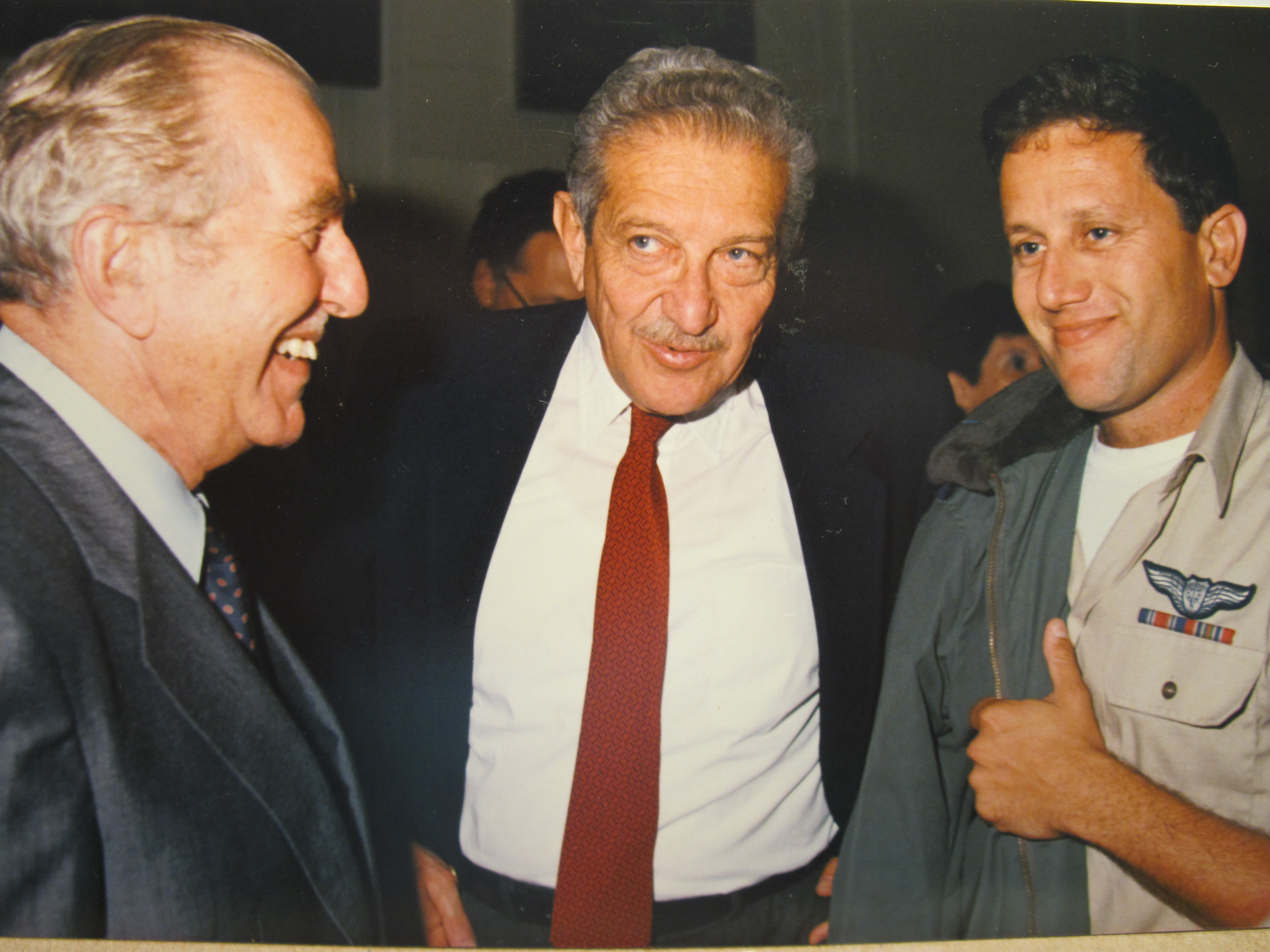 The seventh President of Israel, commander of the Israeli Air Force and Minister of Defense Mr. Ezer Wizman